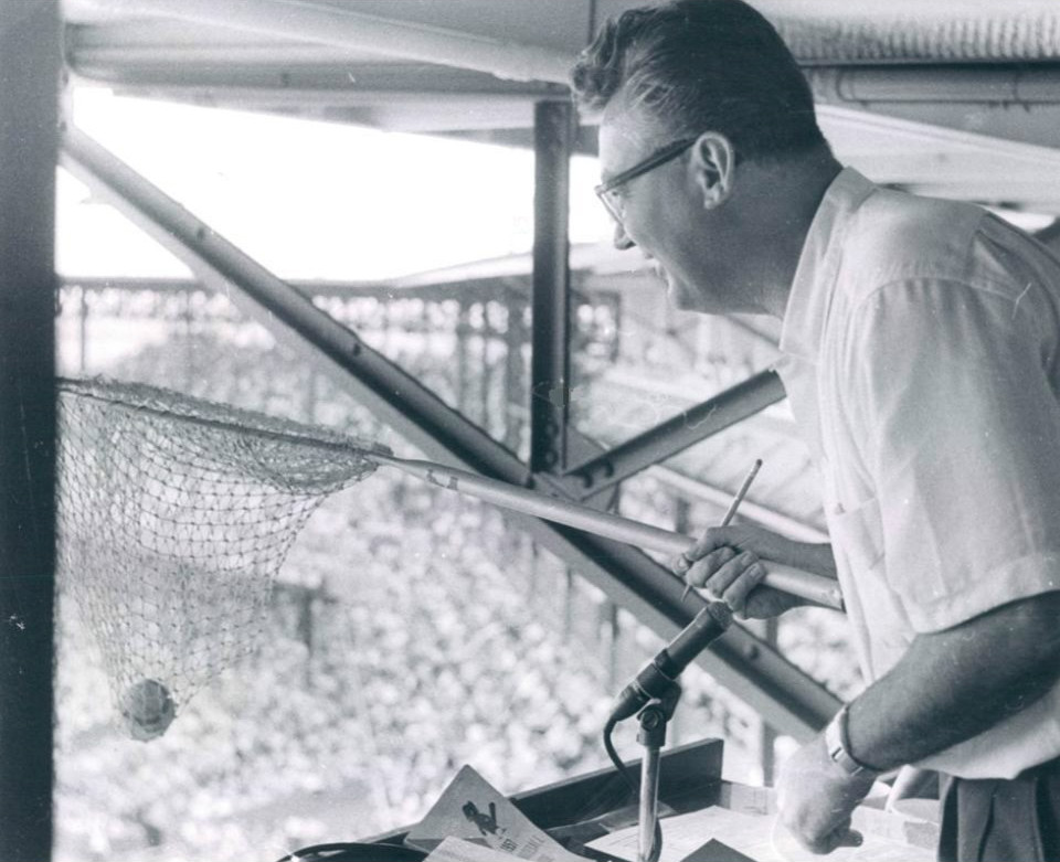 Photo of Harry Caray in the Cardinals' announcing booth. He had just caught a foul ball with his net, which he kept with him, no matter for what team he was announcing.